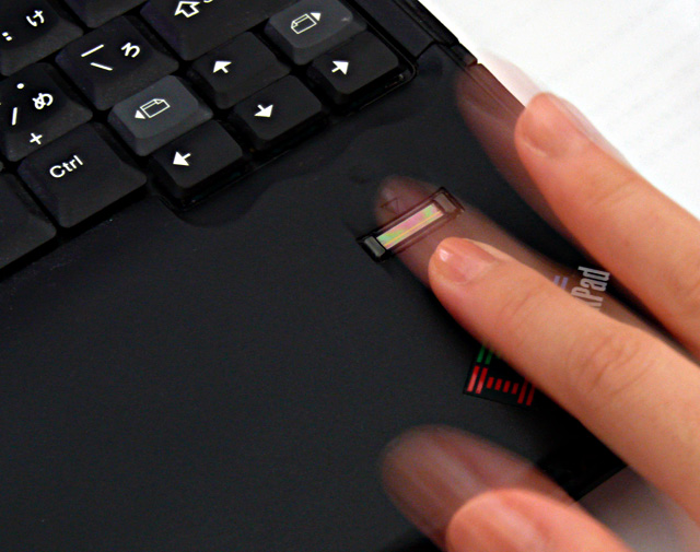 A laptop PC verificating a user by her fingerprint (ThinkPad T43)ノートパソコンで指紋を用いたユーザ認証をしている瞬間 (ThinkPad T43)